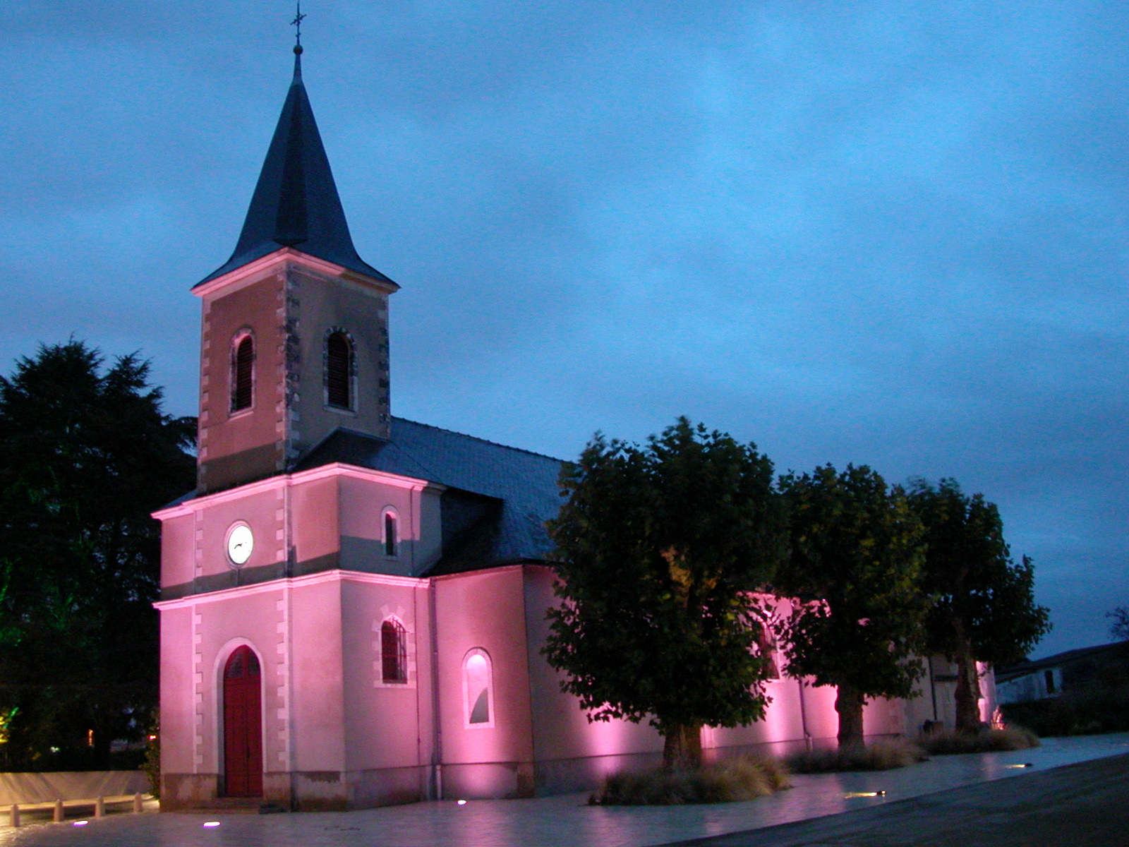 Church of Saint-Aignan-Grandlieu